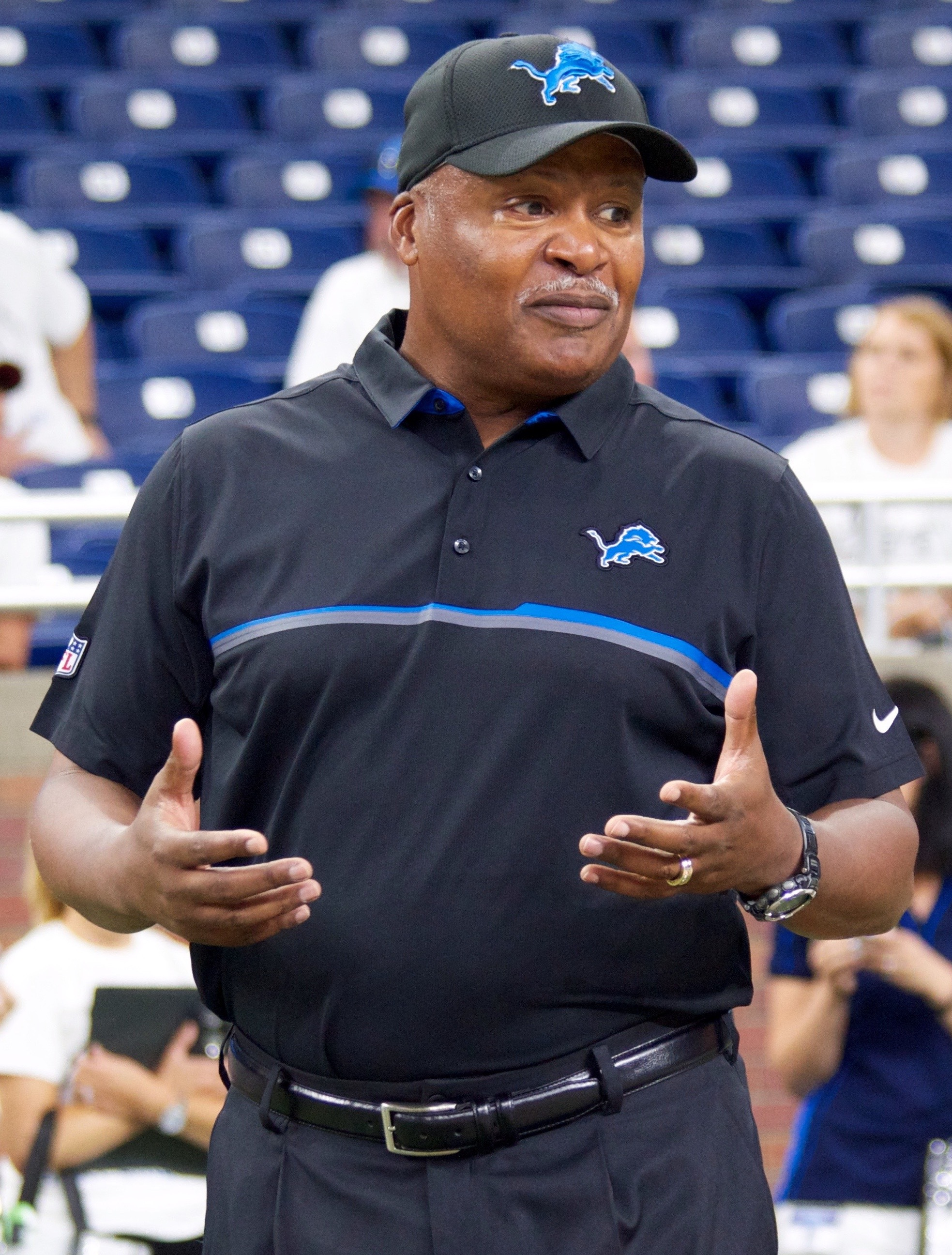 Detroit Lions head coach Jim Caldwell participating in charity event, Play Like a Lion Experience 2016.